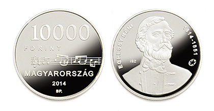 Béni Egressy, coin, silver, struck, 2014. Designer: Laszlo Szlavics, Jr.